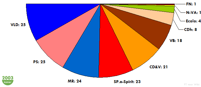 Inaugural seat division of the Belgian Chamber of Representatives in 2003